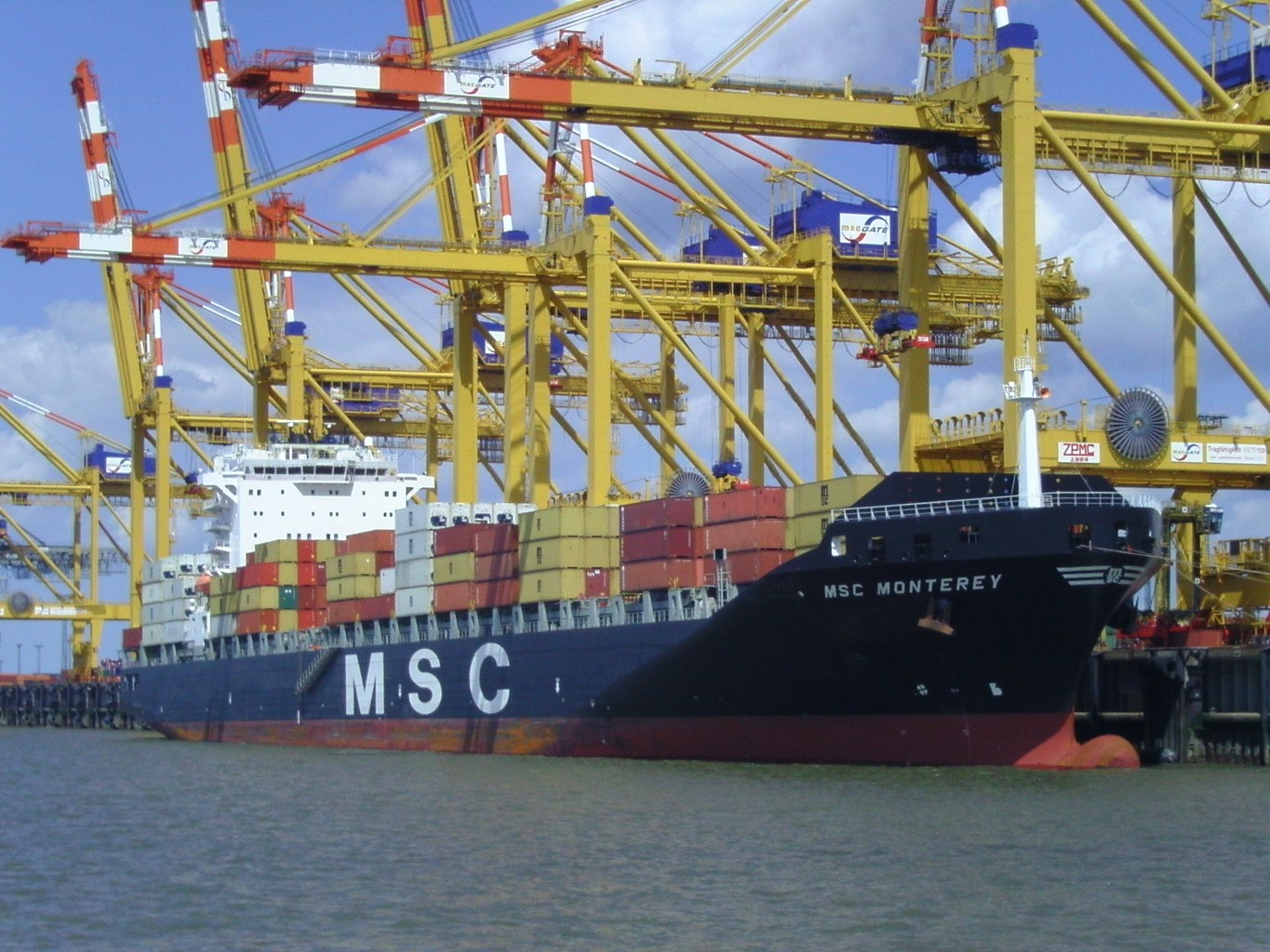 The container ship MSC Monterey at the container terminal of Bremerhaven in Germany